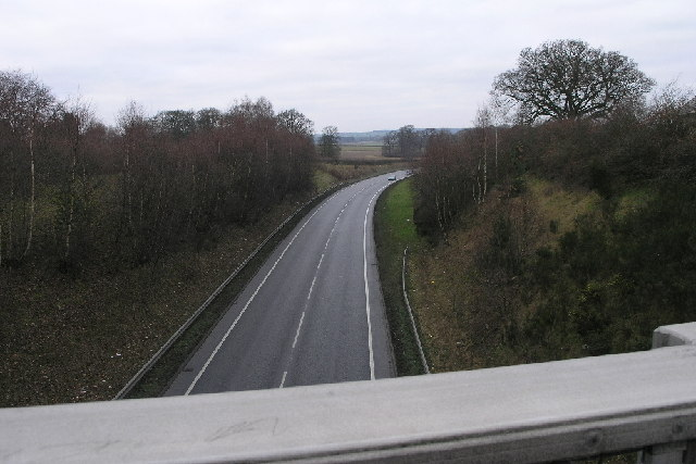 A57 Worksop By-pass. The A57 Worksop by-pass is also less commonly known as the Liverpool to Skegness Trunk Road.